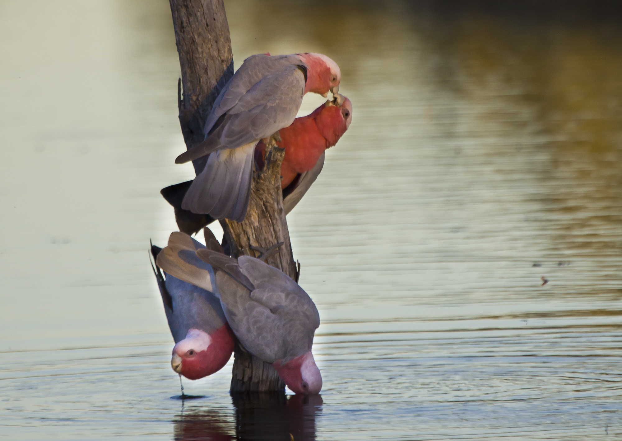 Flock of Galahs settle to drink at house pond